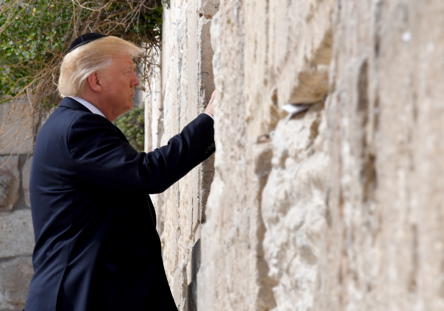 POTUS visit the Western Wall, accompanied by the Western Wall's rabbi, Shmuel Rabinovitz and Mordechai "Solly" Eliav, Director General of the Western Wall Heritage Foundation. Jerusalem, May 22, 2017 Photo credit: Matty Stern/U.S. Embassy Tel Aviv President Trump visit to Israel, May 2017.